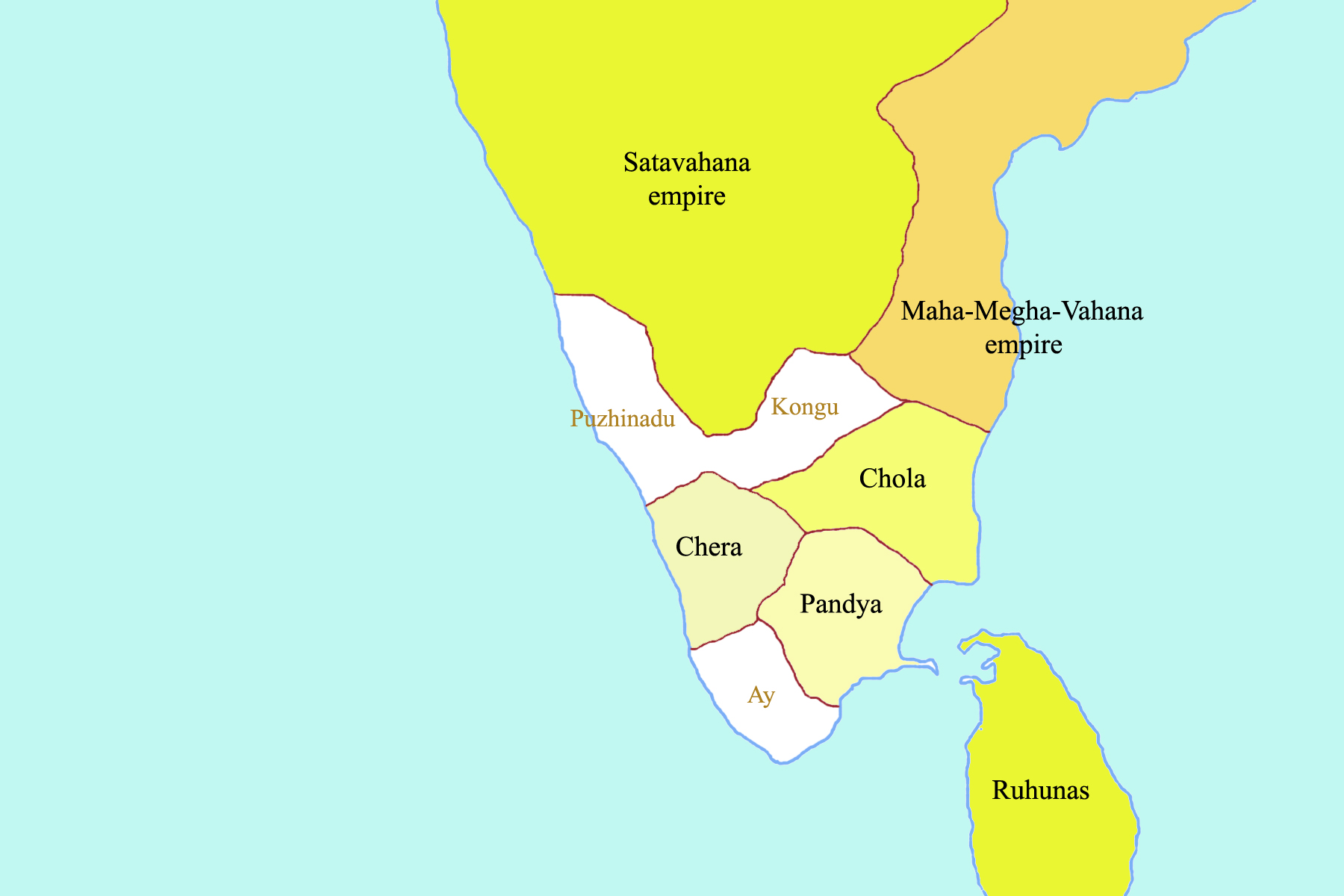 South India in Ad o1, created from Thomas Lessman's free domain material